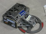 Lenhador